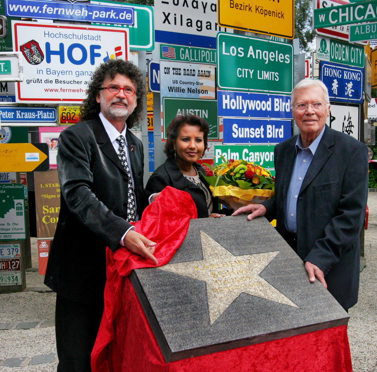 Karlheinz Böhm, founder of several relief organizations, gets his own star on the "boulevard of humanity" at the Fernwehpark in Hof.